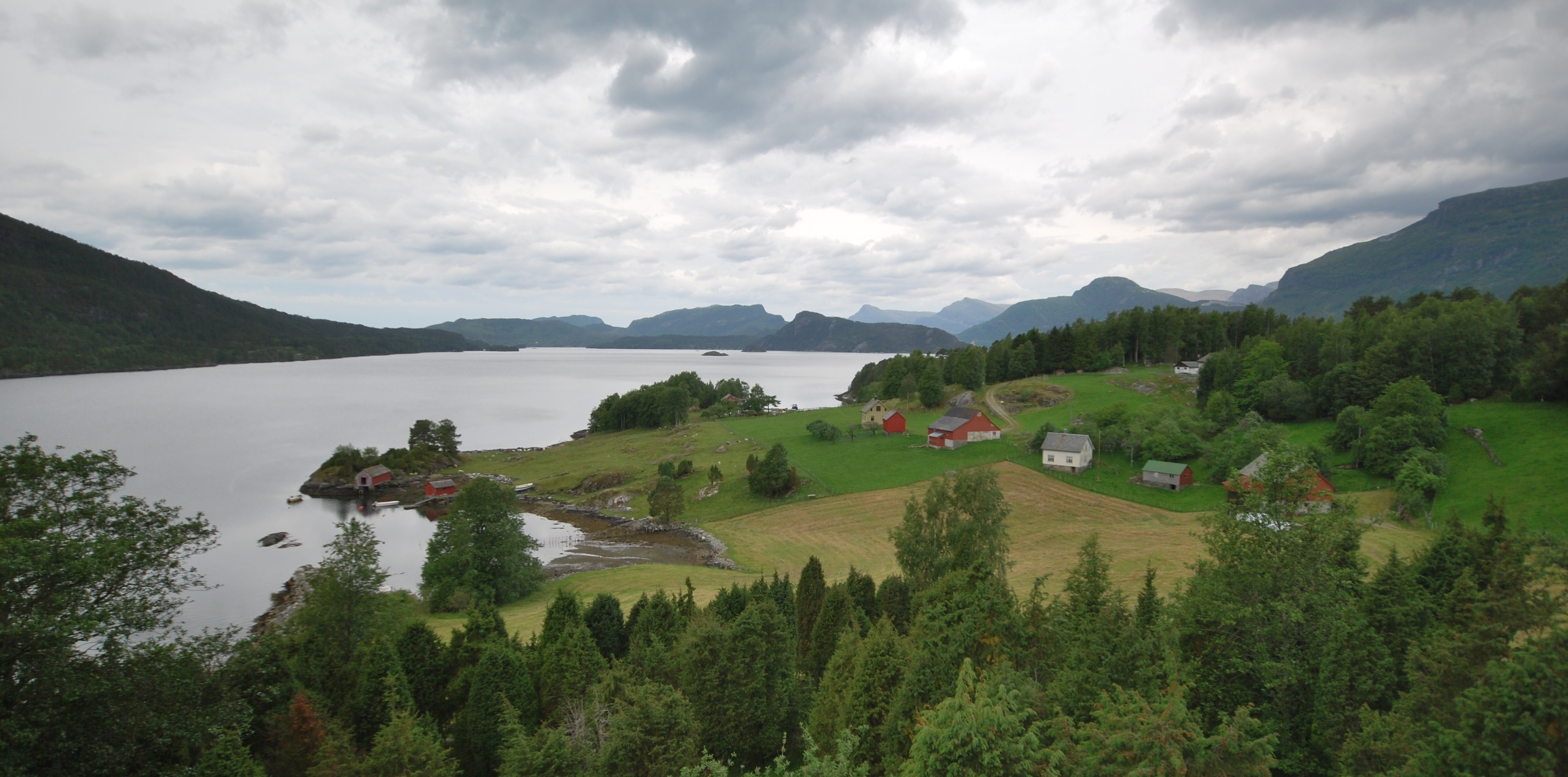 Høydalsfjorden, Flora kommune, Sogn og Fjordane